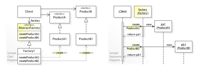 Abstract Factory UML class and sequence diagram